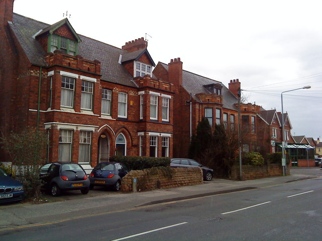 Houses on Station Road, Beeston Victorian Houses on Station Road, Beeston